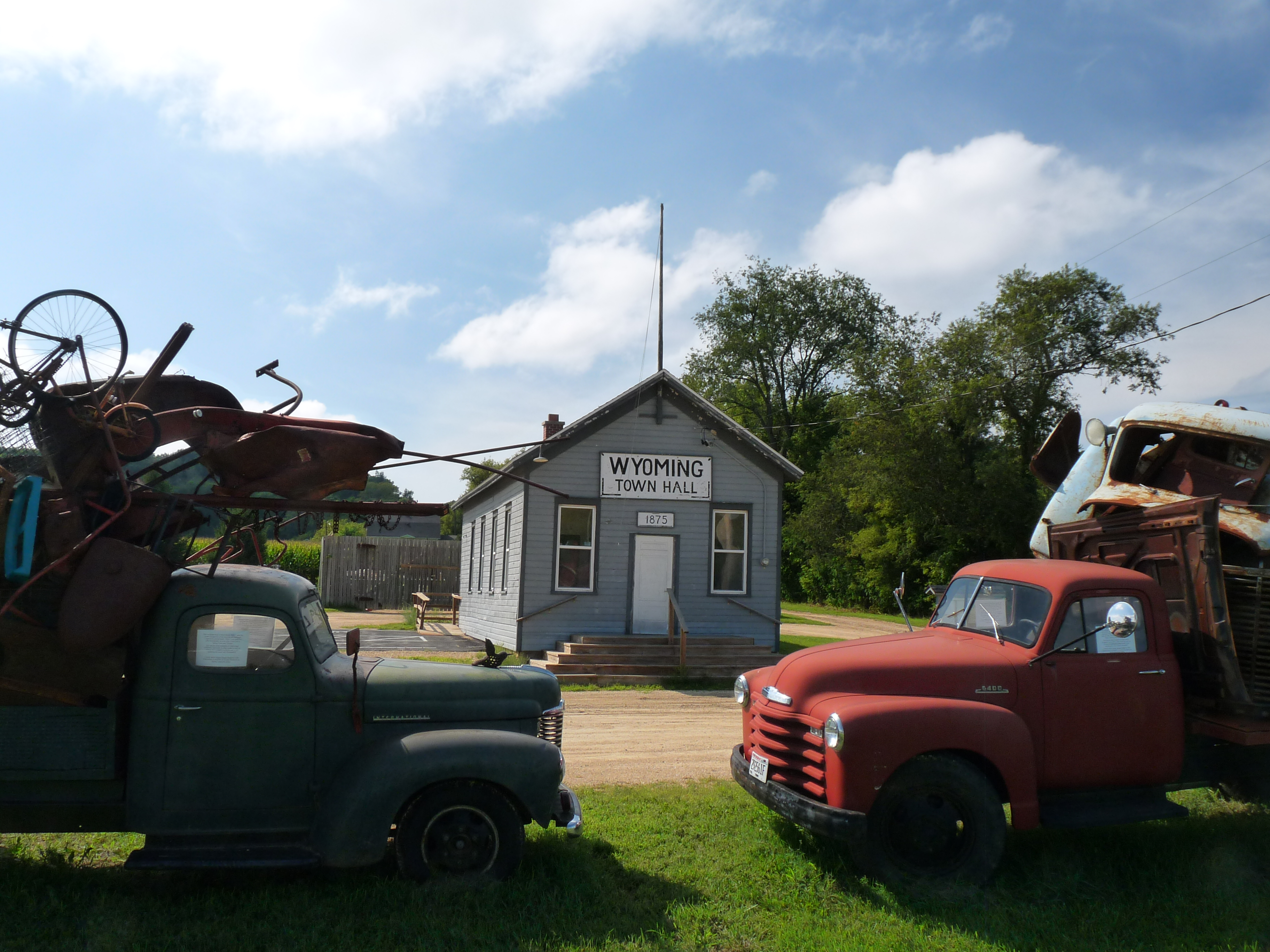 Today's town hall in the Town of Wyoming in Iowa County, Wisconsin was built as a one-room school in 1875. The assemblages in the foreground are art.